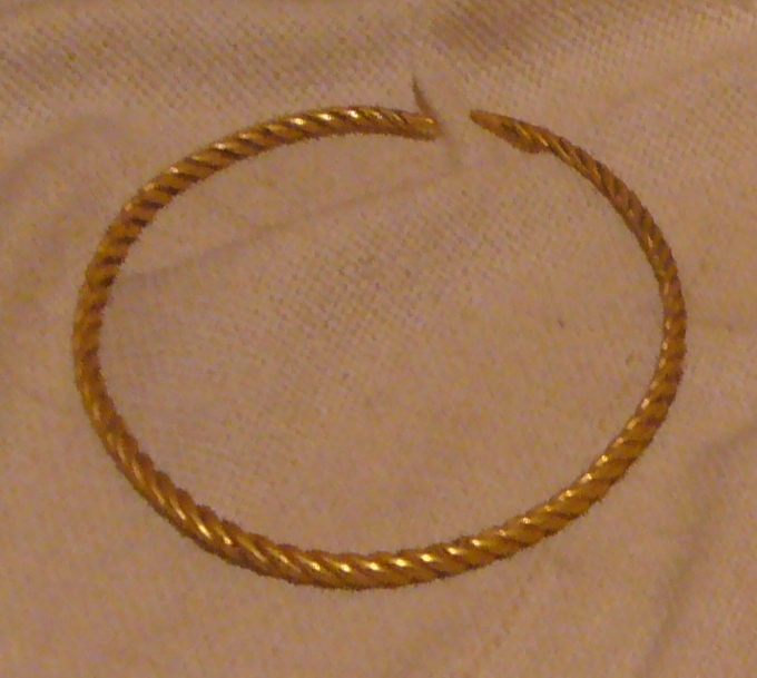 A Galatian torc from Thrace, now at the İstanbul Archaeological Museum. QuartierLatin1968 17:33, 6 December 2006 (UTC)